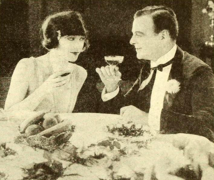 Still with Alice Brady and Lowell Sherman in the American film The New York Idea (1920), on page 45 of the February 1921 Photoplay magazine.